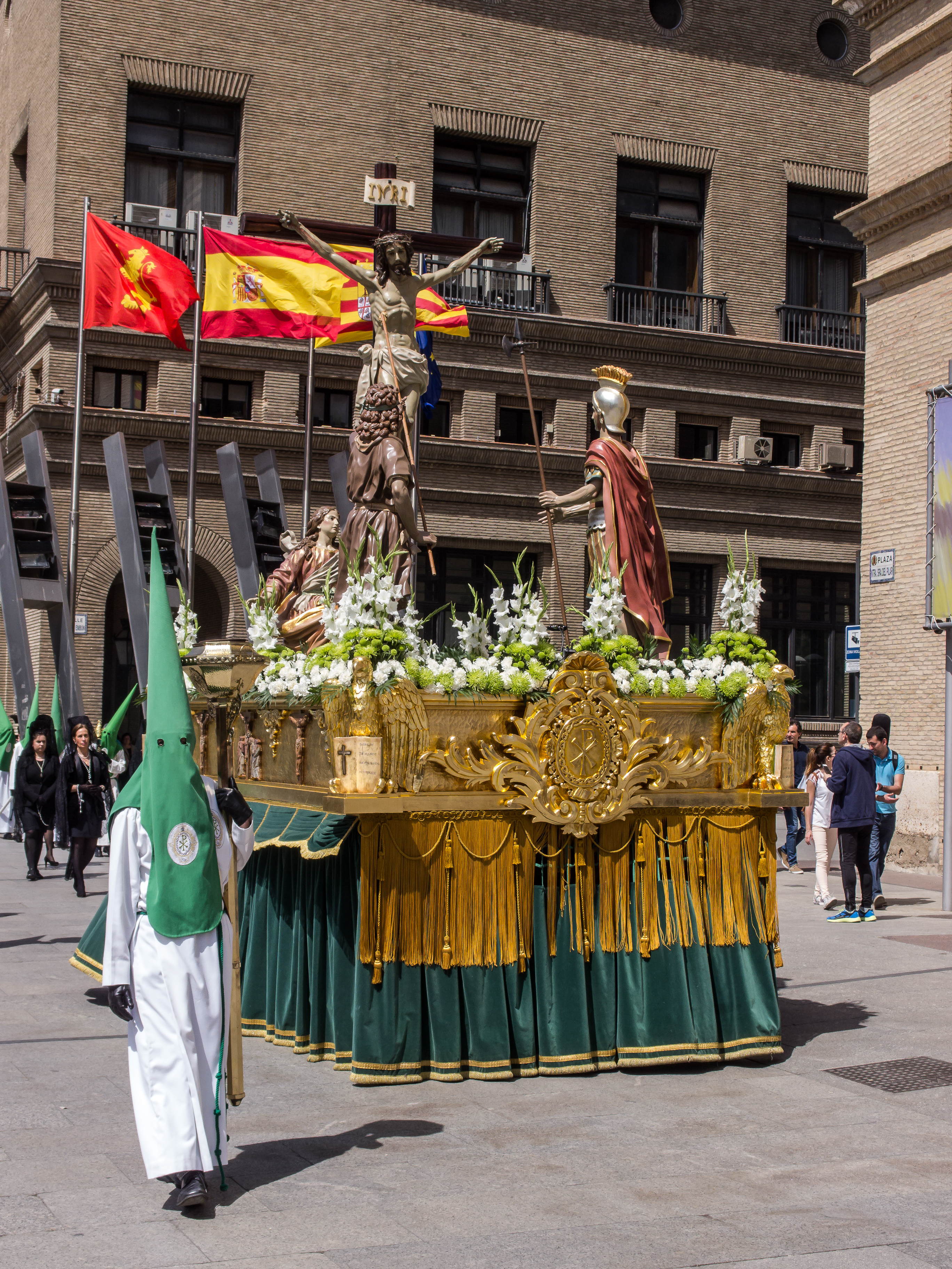 Como cada Viernes Santo a las 12 de la mañana comenzó la procesión de las Siete Palabras. Durante cuatro horas las calles de Zaragoza se llenaron de "perejiles" This is a photography of a Folklore festival in Spain (Wikidata id Q9075892).